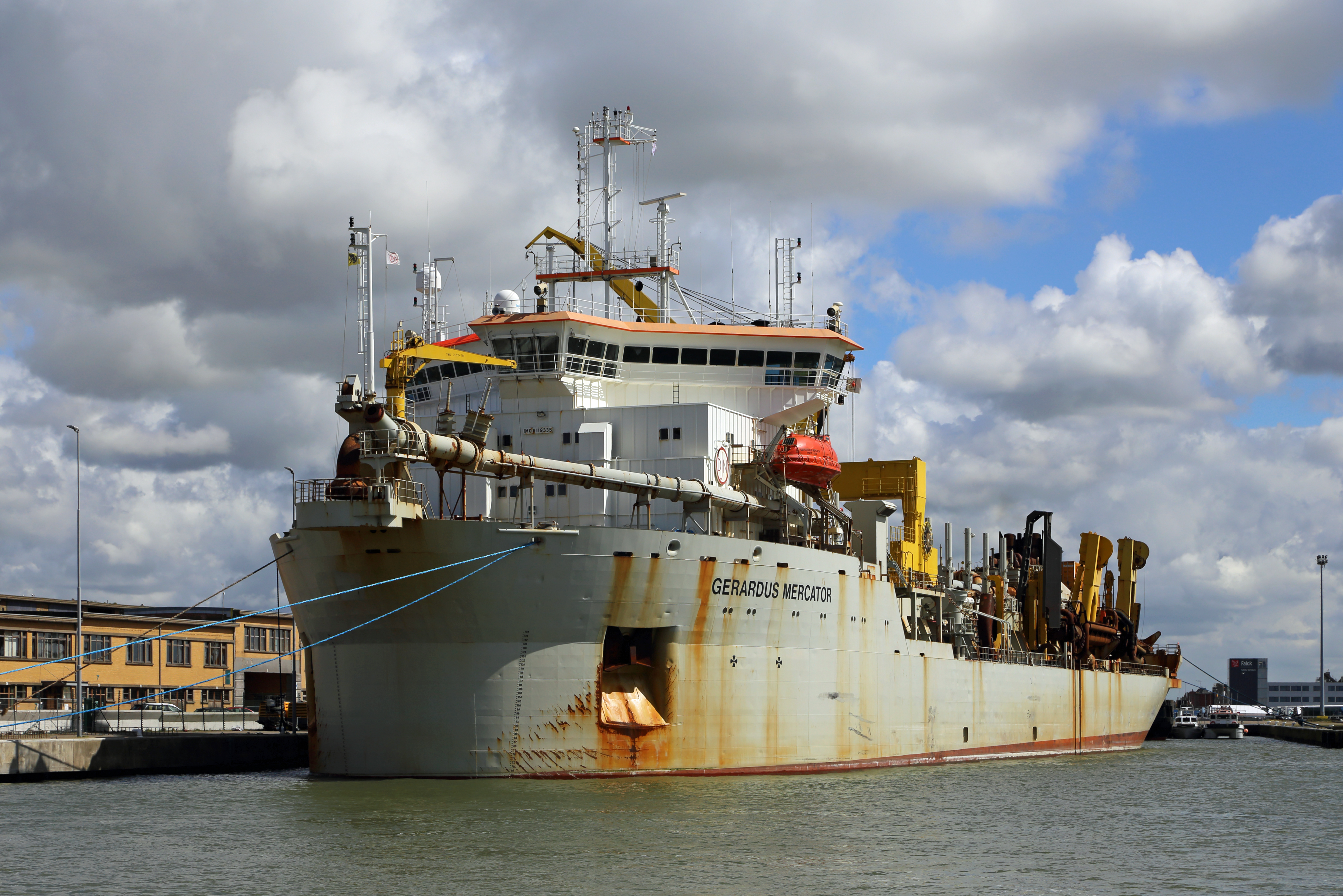 Trailing suction hopper dredger Gerardus Mercator of Belgian dredging company Jan De Nul in the harbour of Ostend (Belgium)